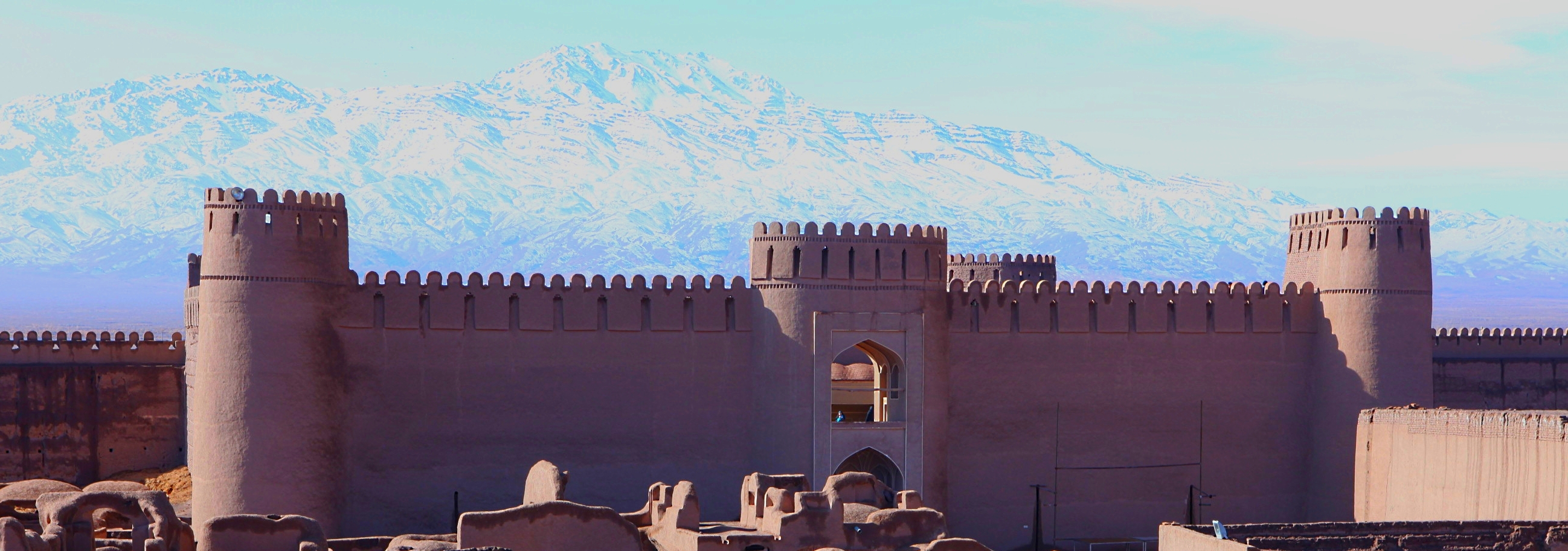 Medieval Rayen Castle (4th-century CE) — in Kerman. Adobe brick castle ruins, and mountains, in Kerman Province, southeastern Iran.